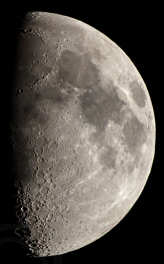 dark side of the moon